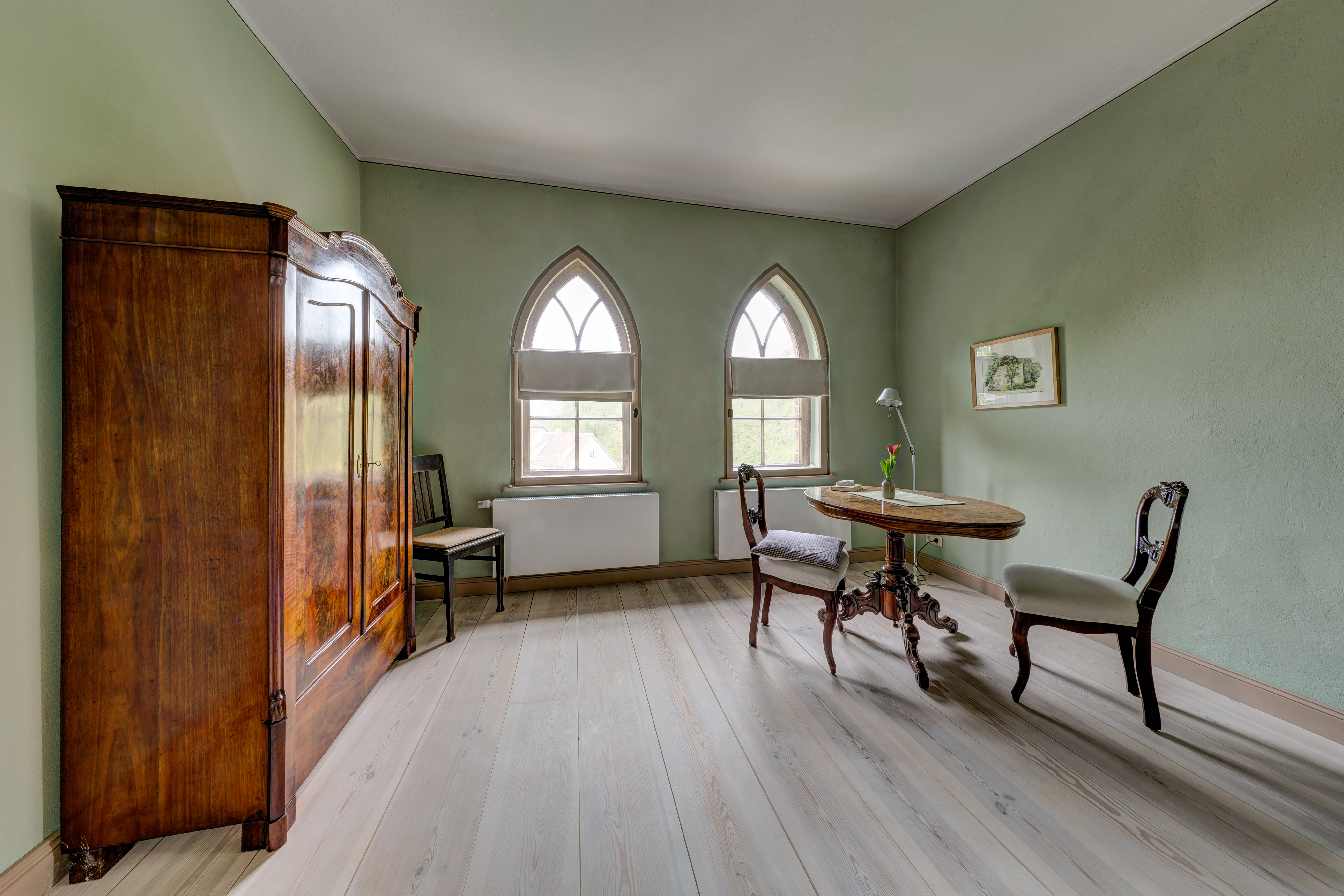 Interior of the Abbey, Monastery Endowment of the Holy Grave, Heiligengrabe, Brandenburg, Germany